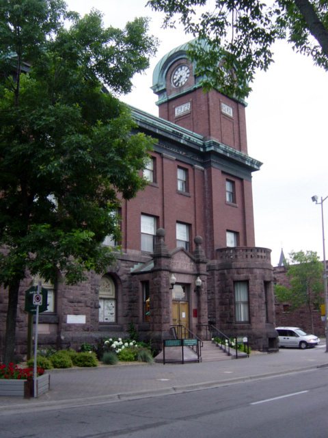 Sault Ste. Marie Museum, Sault Ste. Marie, Ontario.